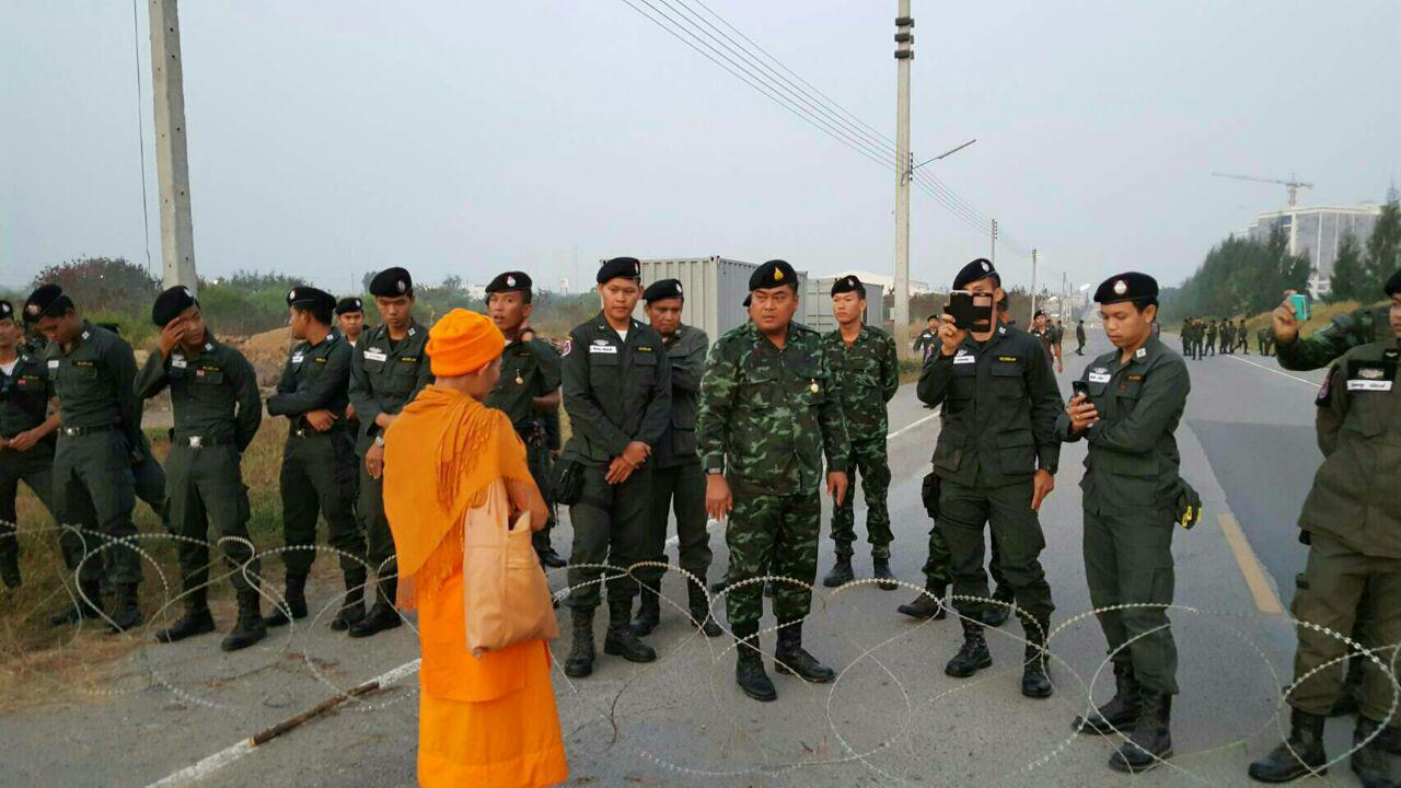 Wat Phra Dhammakaya monk at edge of human barricade by thai military